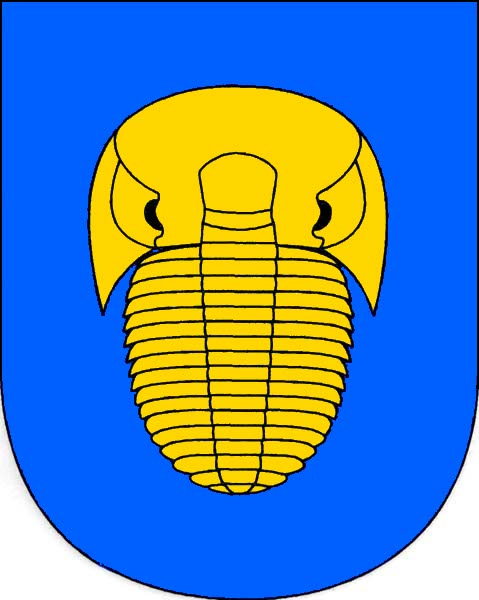 Coat of arms of Skryje municipality, Rakovník District, Czech Republic.